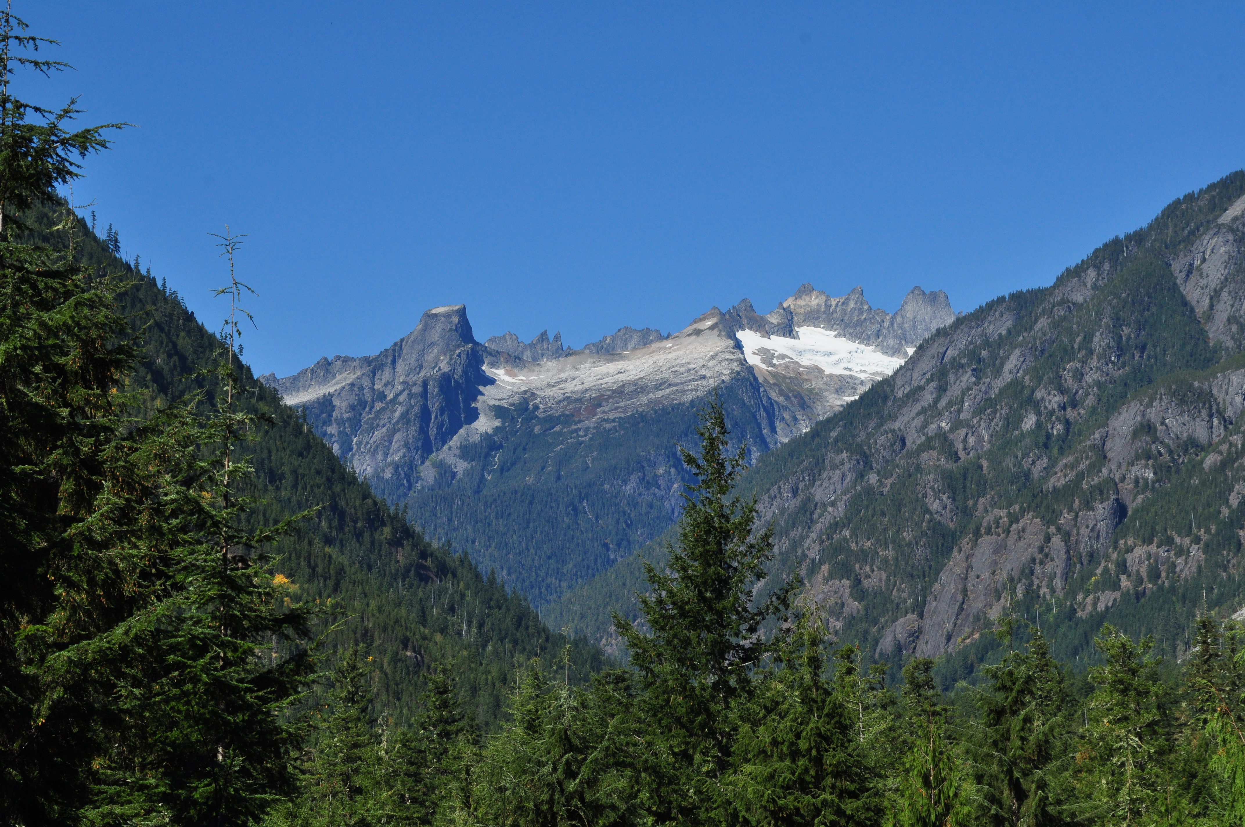 Picket Range seen from the end of the short boardwalk called the Sterling Munro Trail, behind the North Cascades Visitor Center, Newhalem, Washington, USA.